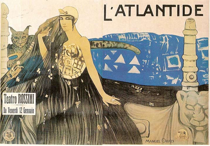 French movie poster from Italy.Featuring Stacia Napierkowska (la Reine Antinea), directed by Jacques Feyder